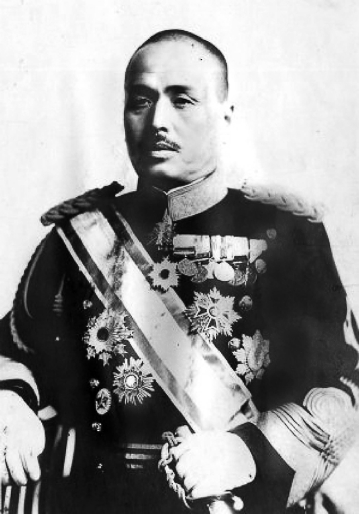 Yoshinori Shirakawa (1869–1932, War Minister 1927–29).